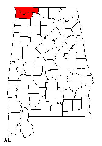 The Shoals